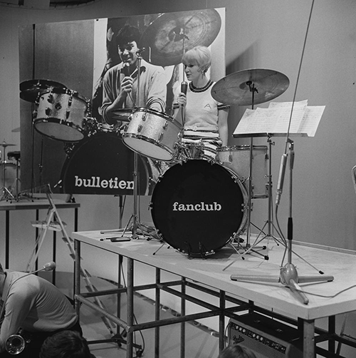 Setfoto's van Fanclub